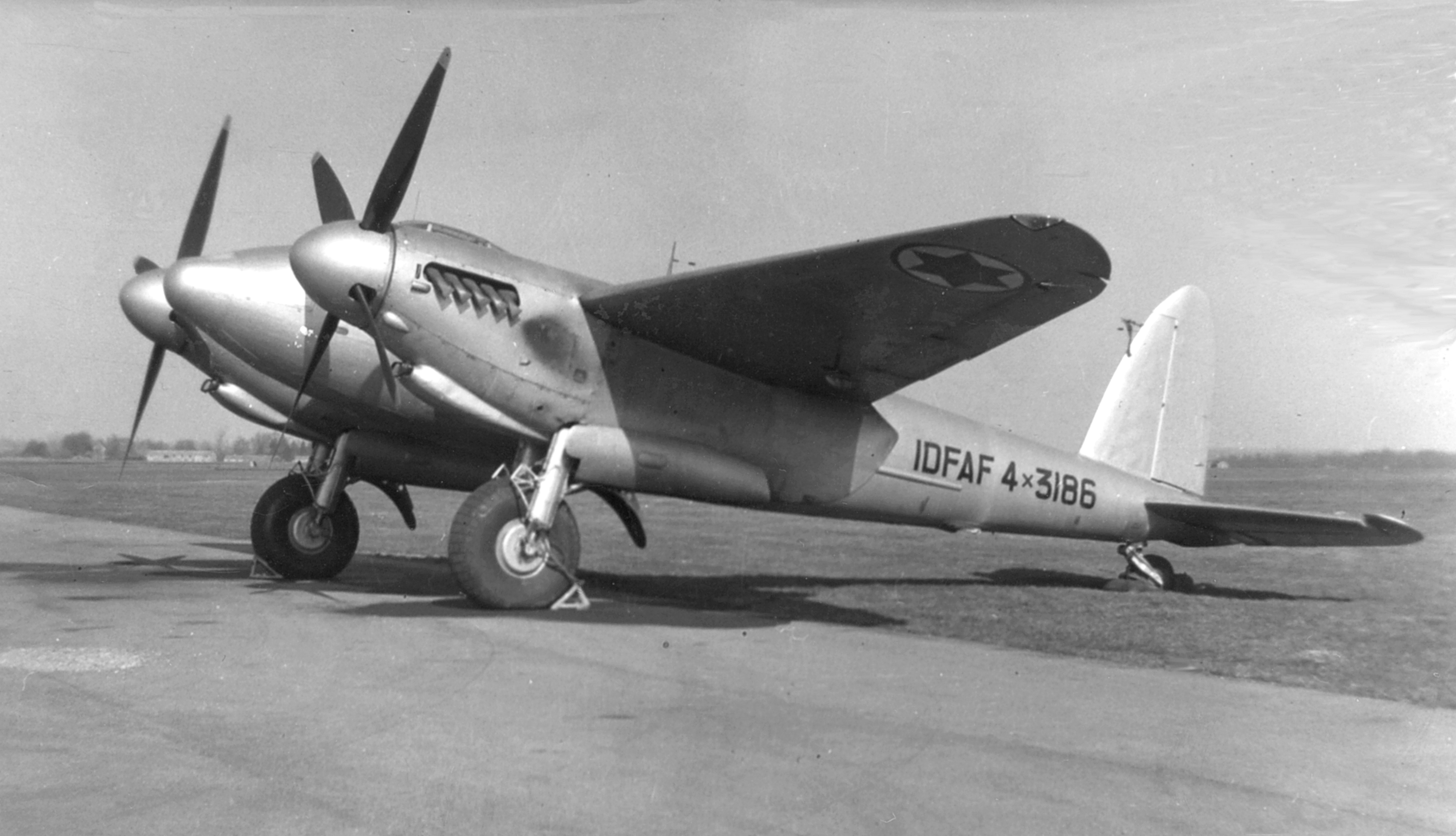 4X3186, De Havilland Mosquito.